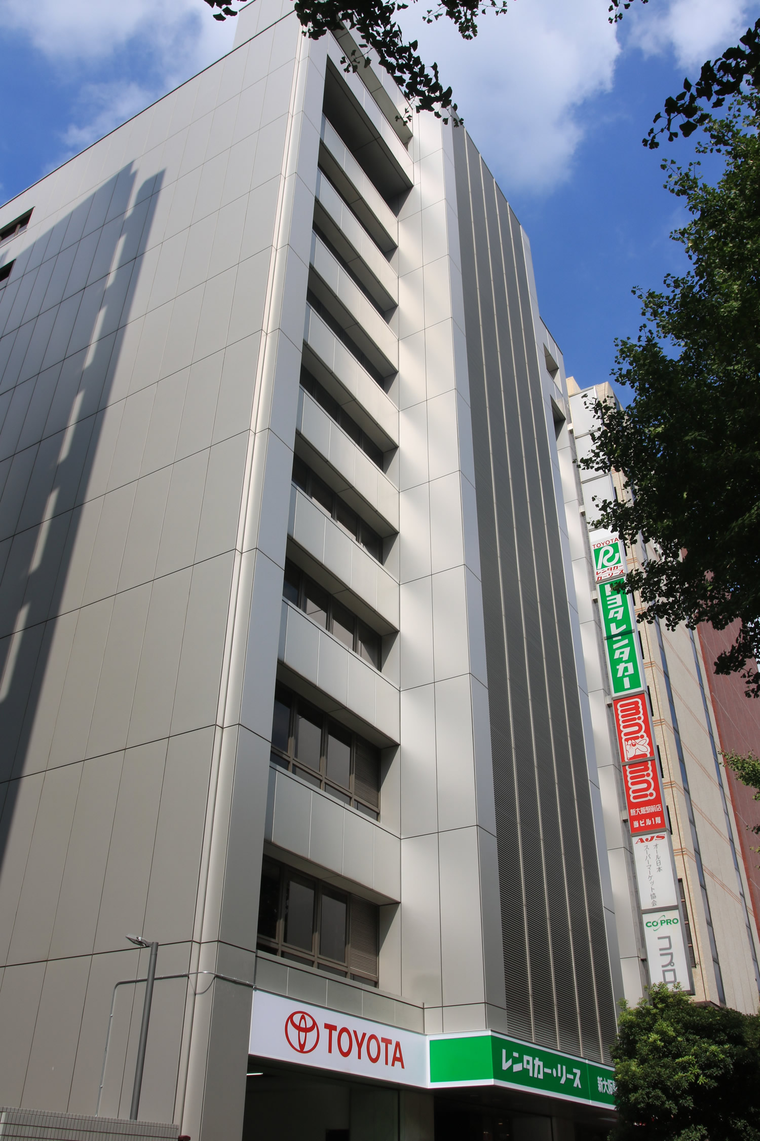 shinosaka toyota BLDG.